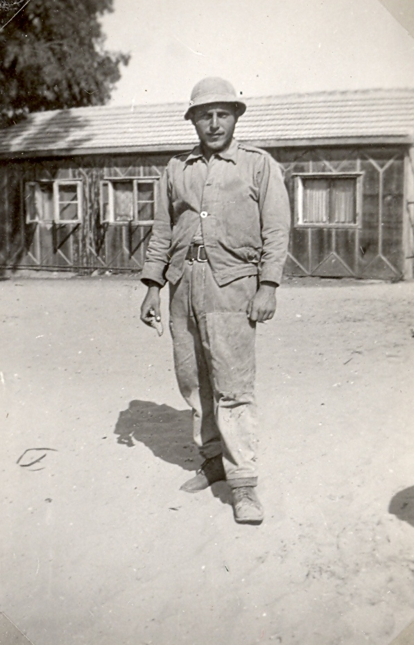 Settlements in Israel